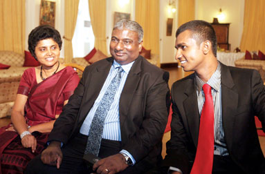 pk family picture